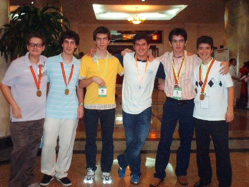 The members of the 2007 IMO Greek team, including Michael Savvas and Nikolaos Romanidis.